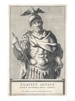 Anonymous antique engraving of Roman military leader